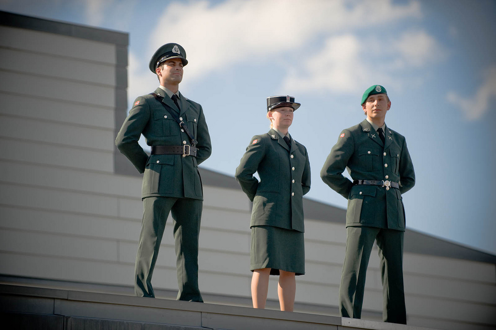 Norwegian Army new uniforms